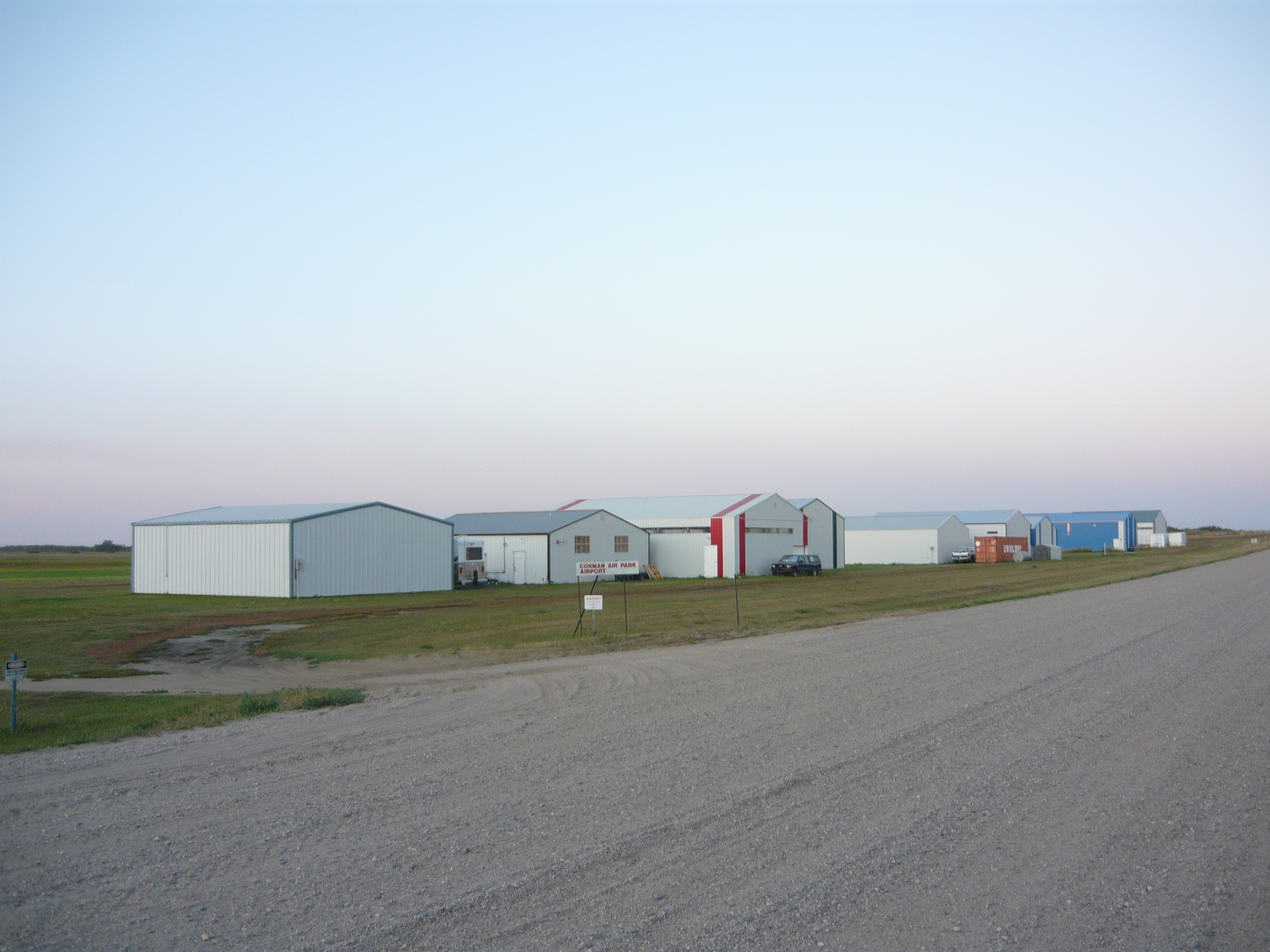 Saskatoon/Corman Air Park in Corman Park, Saskatchewan, Canada, as seen from Melness Road.